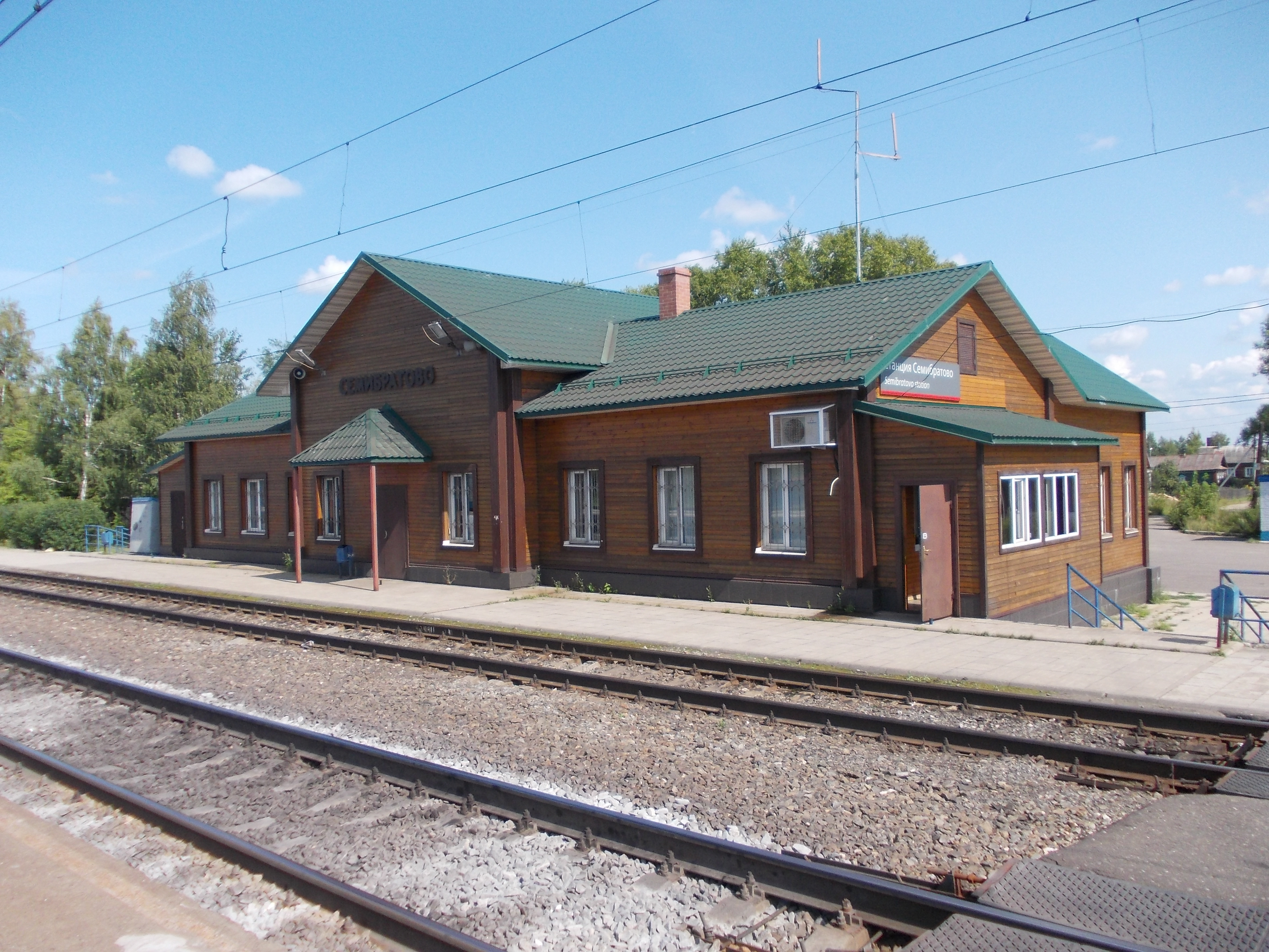 Semibratovo train station in Yaroslavl Oblast, Russia.